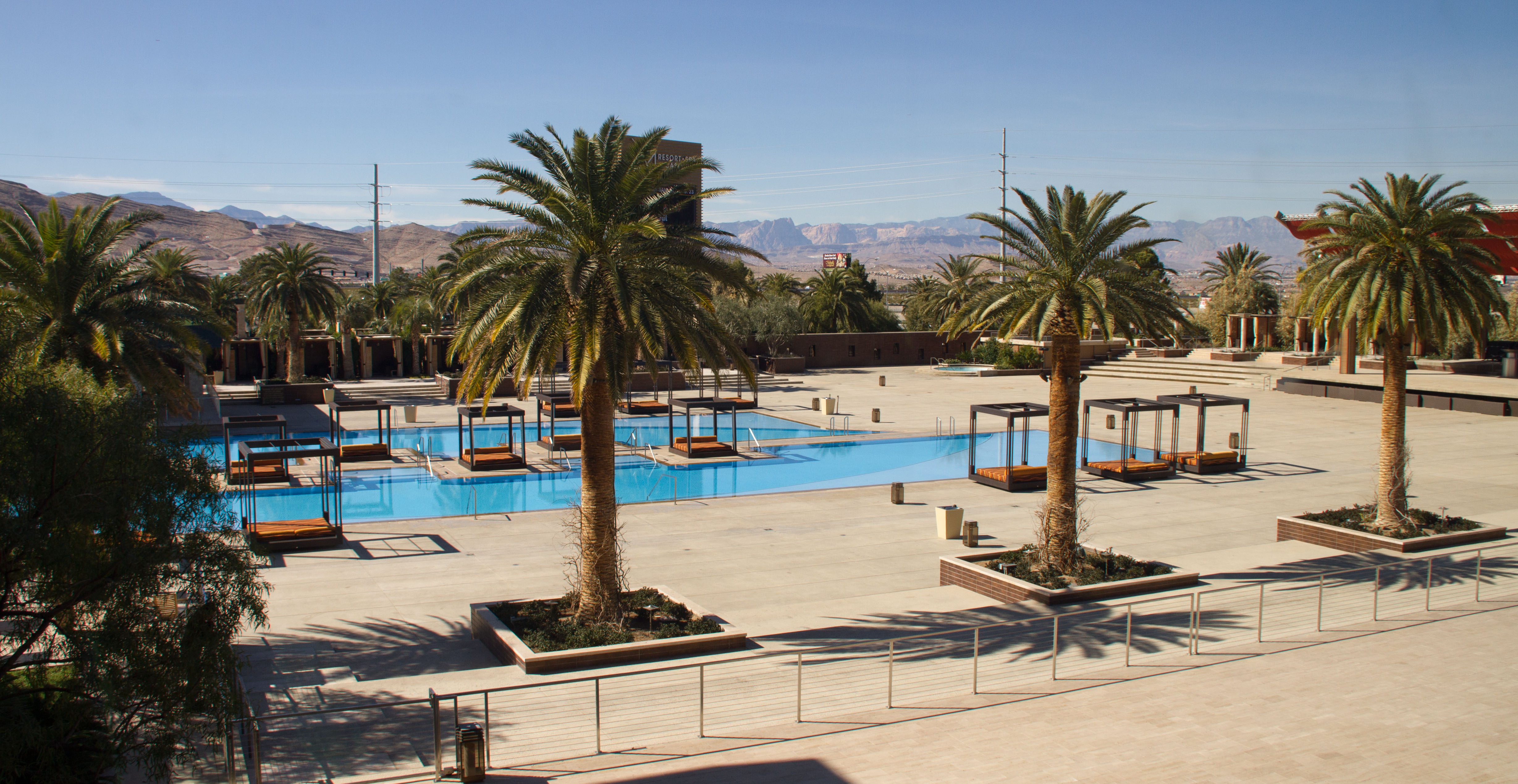 M Resort pool, Las Vegas Strip, USA.